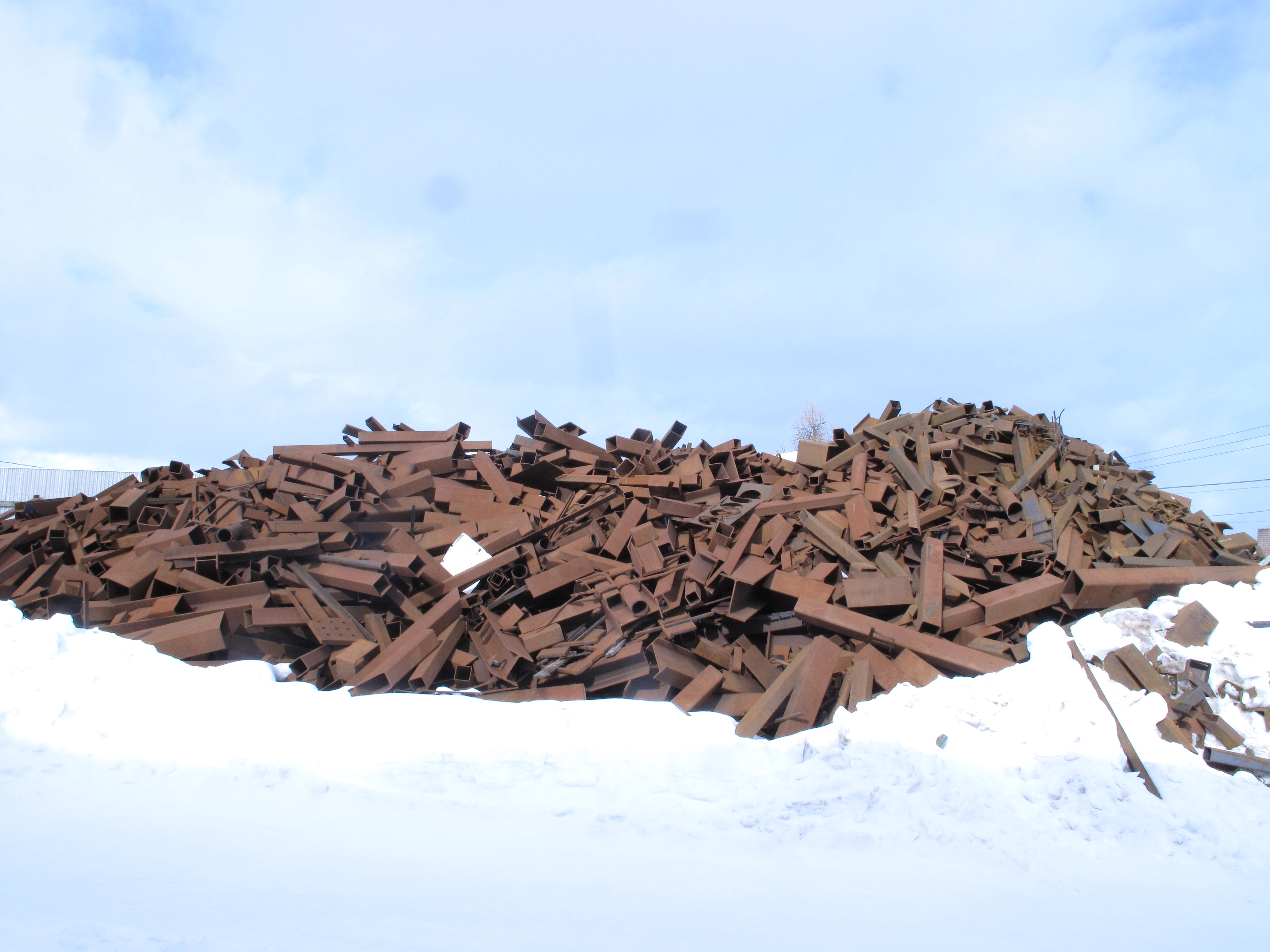 Scrap metal collecting site in at Akaa, Finland (Winer 2013)